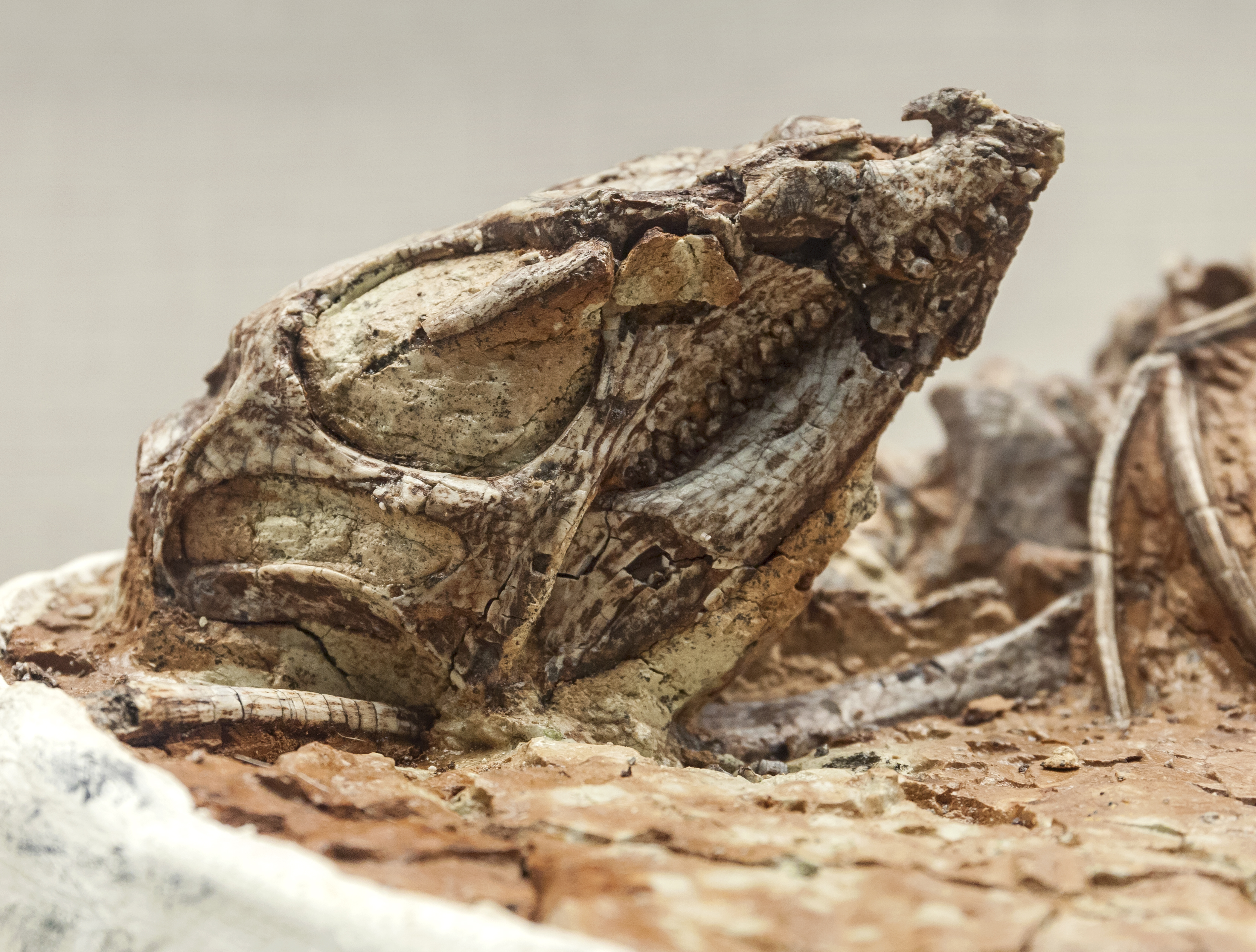 The skull of Jeholosaurus sp., which is collected from Beipiao, Liaoning, China. This specimen (BMNHC Ph800) is a collection of Beijing Museum of Natural History and was on display in National Museum of Natural Science (Taichung, Taiwan) during a special exhibition.